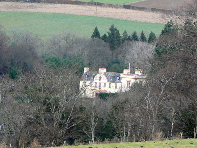 Frendraught House Secluded country house in private estate.